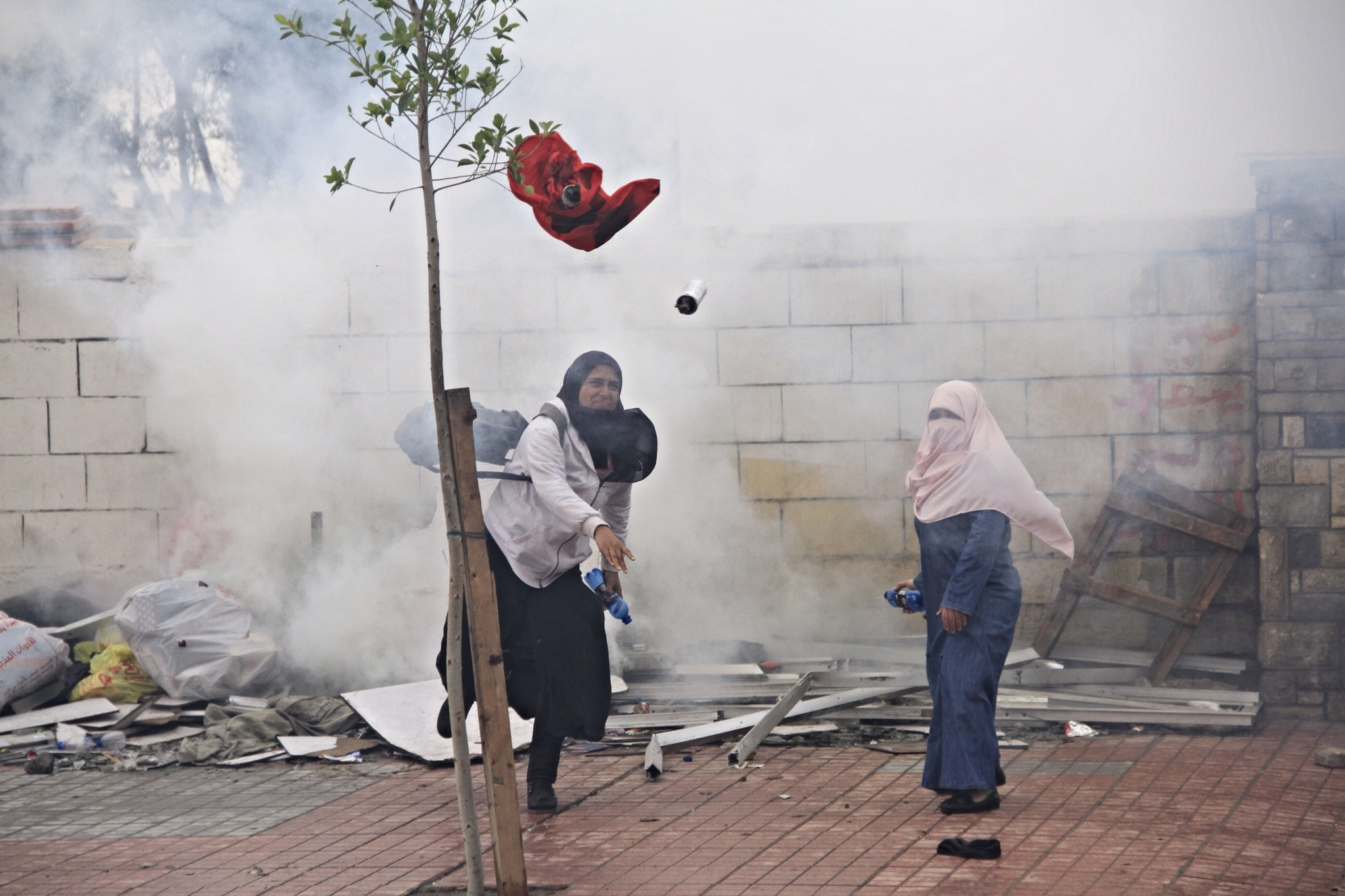 Original description: "Female Islamist students throw projectiles at police during a protest at Al-Azhar University in Cairo, Dec. 11, 2013. (Hamada Elrasam for VOA)"